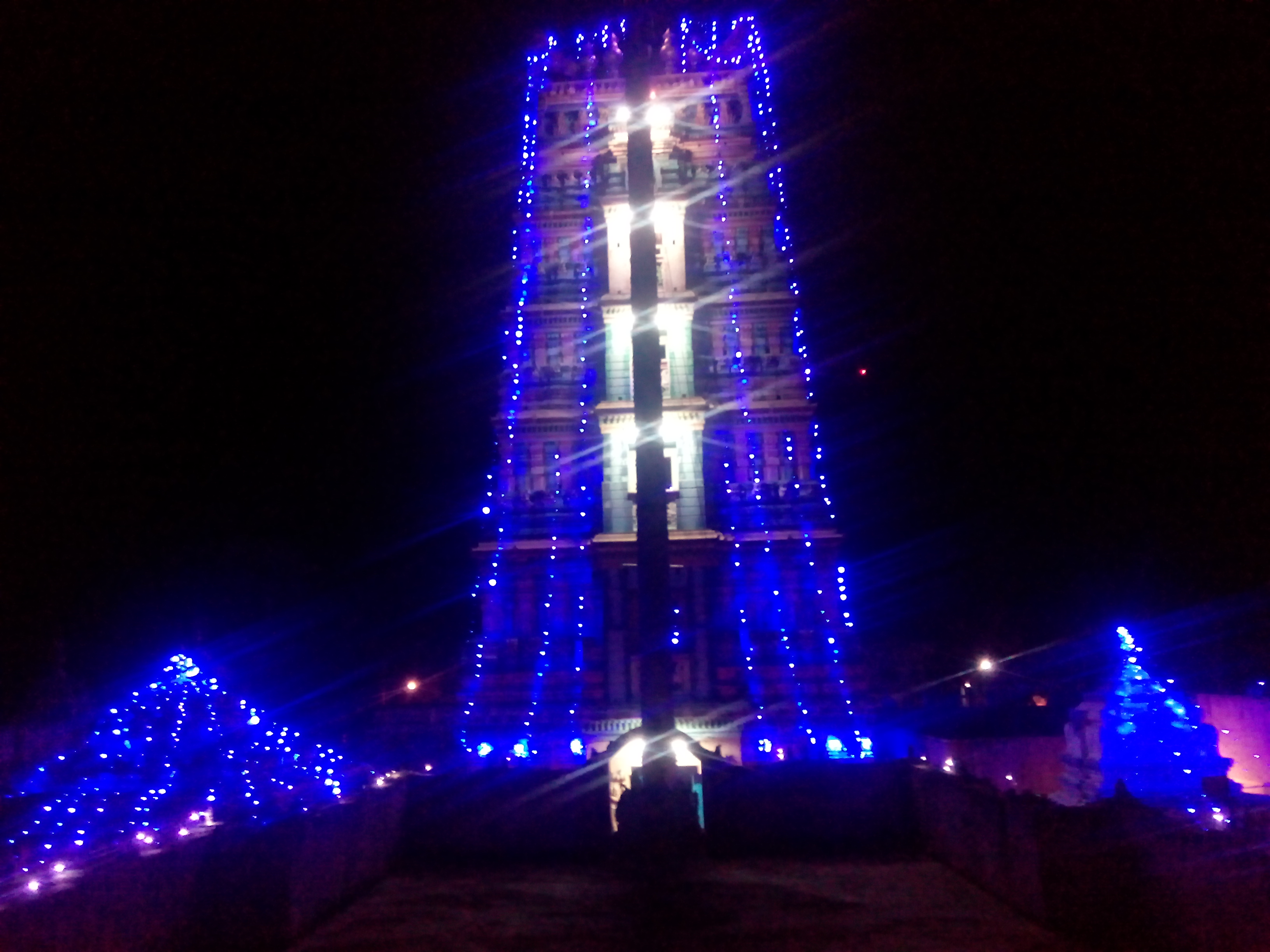 Achanta, Westgodavari Village of Andhrapradesh